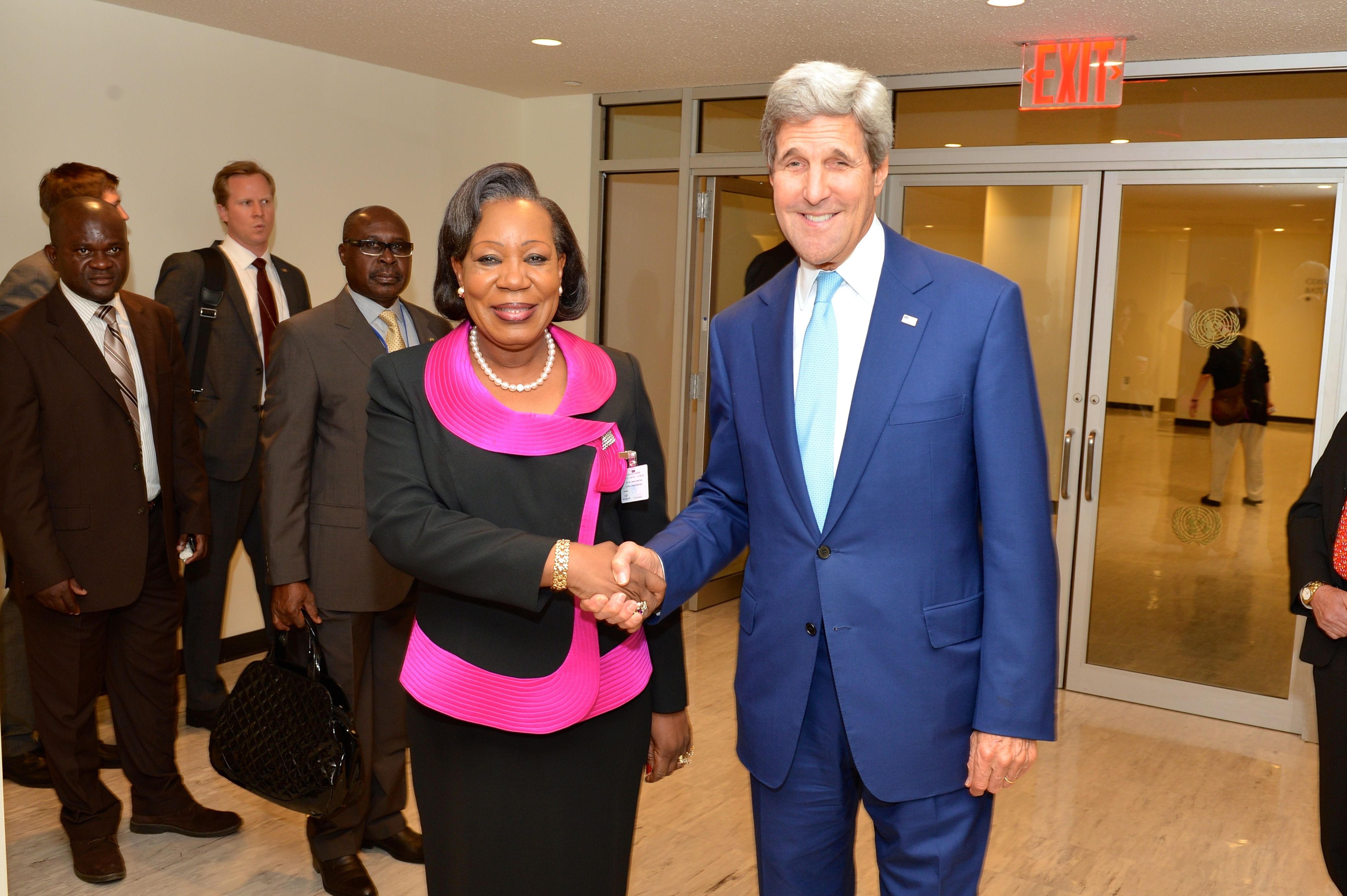 U.S. Secretary of State John Kerry poses for a photo with Central African Republic Transitional President Catherine Samba-Panza before the start of the UN Secretary General's High-Level Event on the Central African Republic at the United Nations headquarters in New York City on September 26, 2014. [State Department photo/ Public Domain]